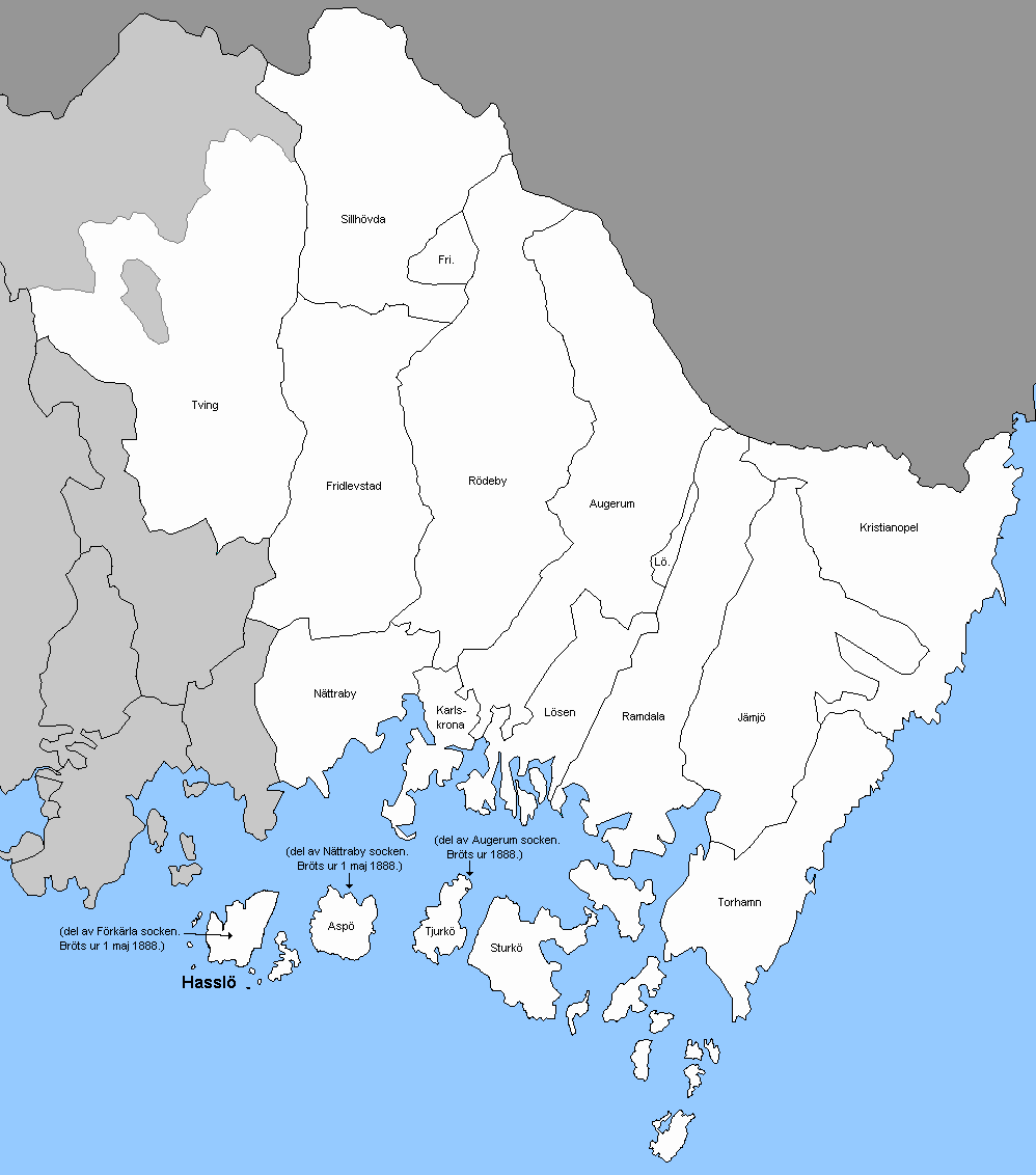 socken in Karlskrona